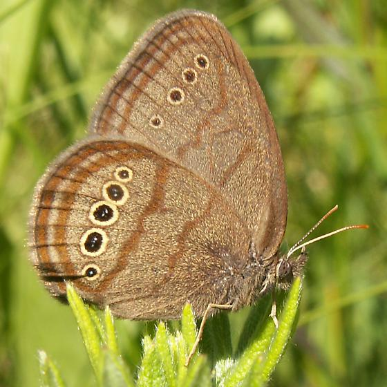 Mitchell's Satyr (Neonympha mitchellii) photographed in Van Buren County, Michigan, USA